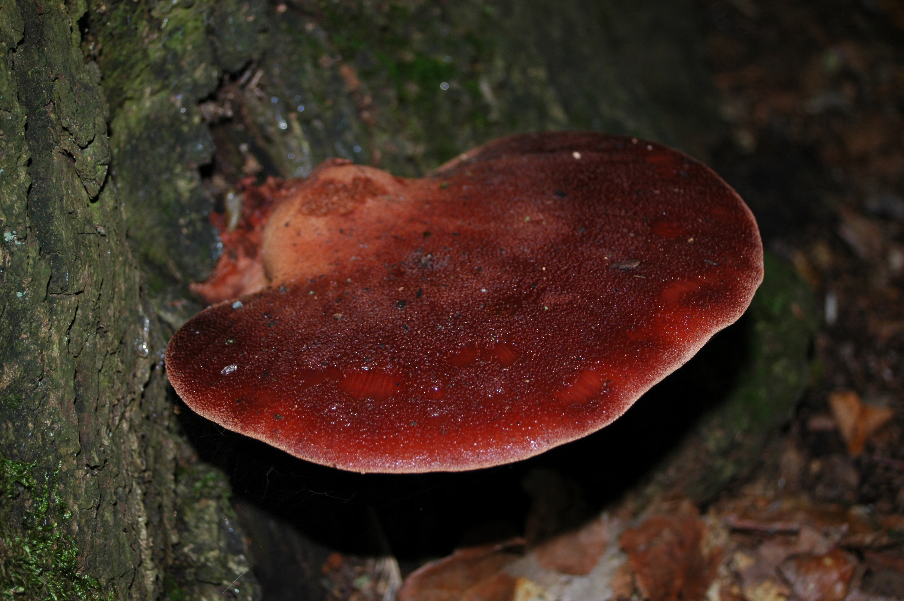 Fistulina hepatica (Schaeff.) ex Fr.; Czech Republic, Chrást u Plzně, Nature reserve Zábělá , Fistulina hepatica (Schaeff.) ex Fr.